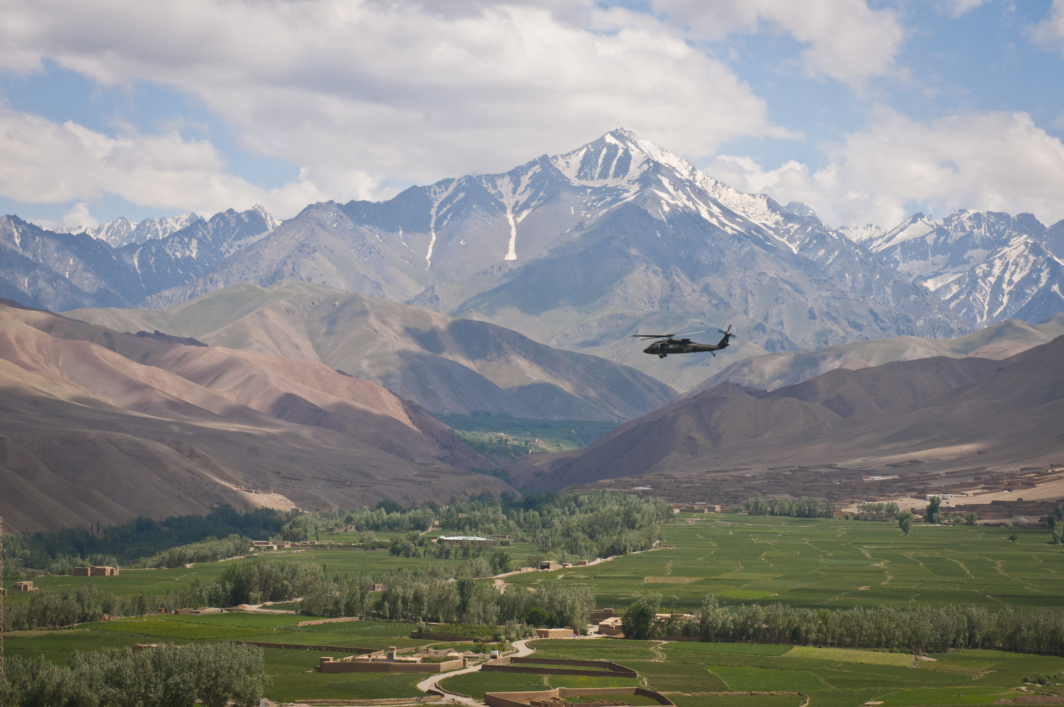 A UH-60 Black Hawk flies over the Bamyan river valley, June 24, 2012. (Photo ID: 614493)